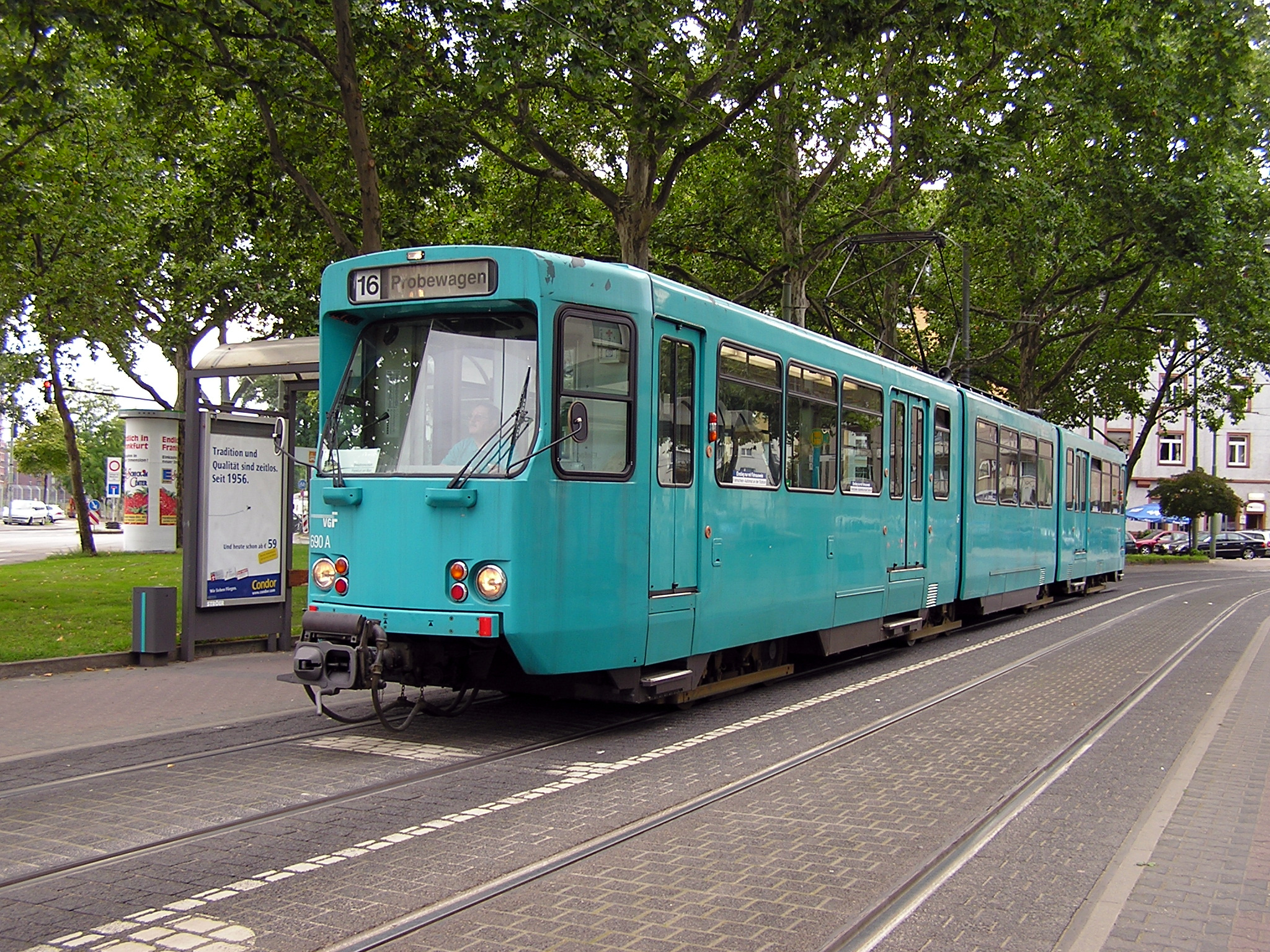 Pt-railcar 690 at the station Ostbahnhof/Sonnemannstraße